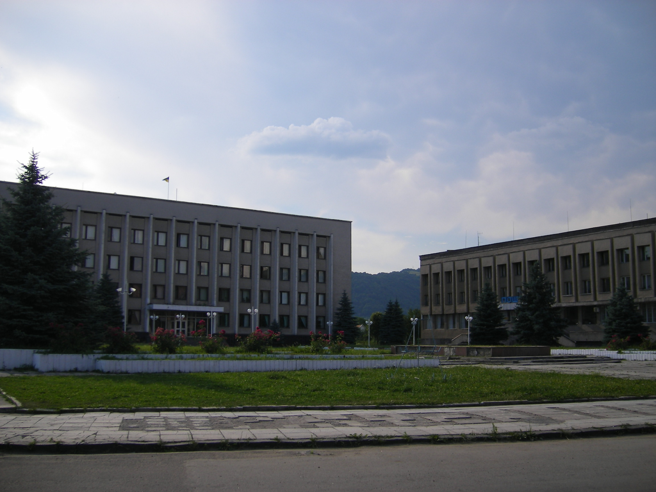 Velikiy Berezniy, district administration building